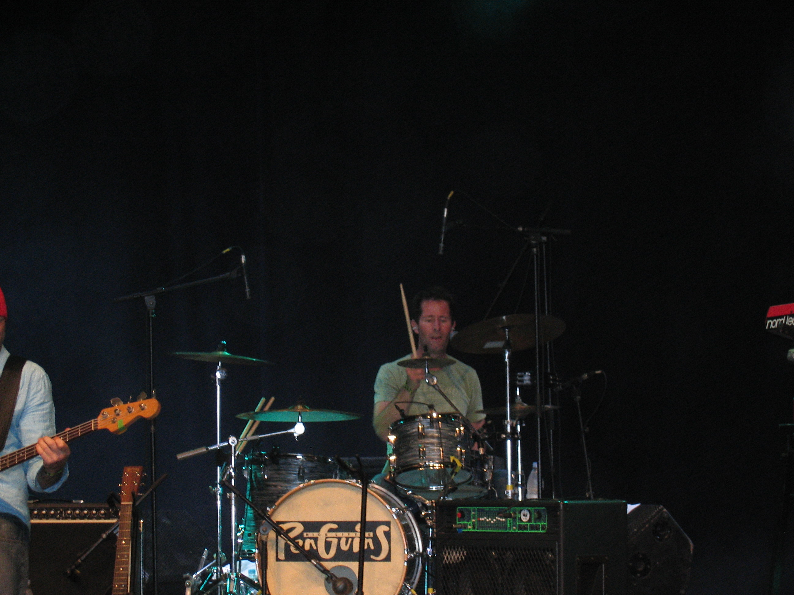 Nice Little Penguins drummer at Langelandsfestivalen 2006. Picture taken by User:Lhademmor